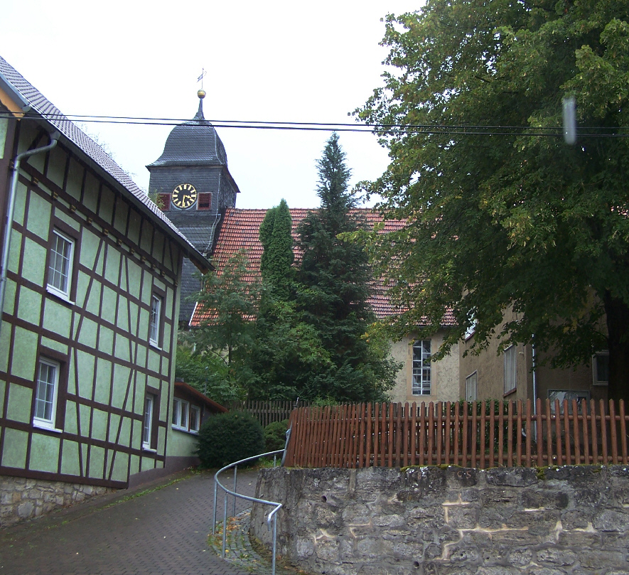 At the church in Eckardtshausen.